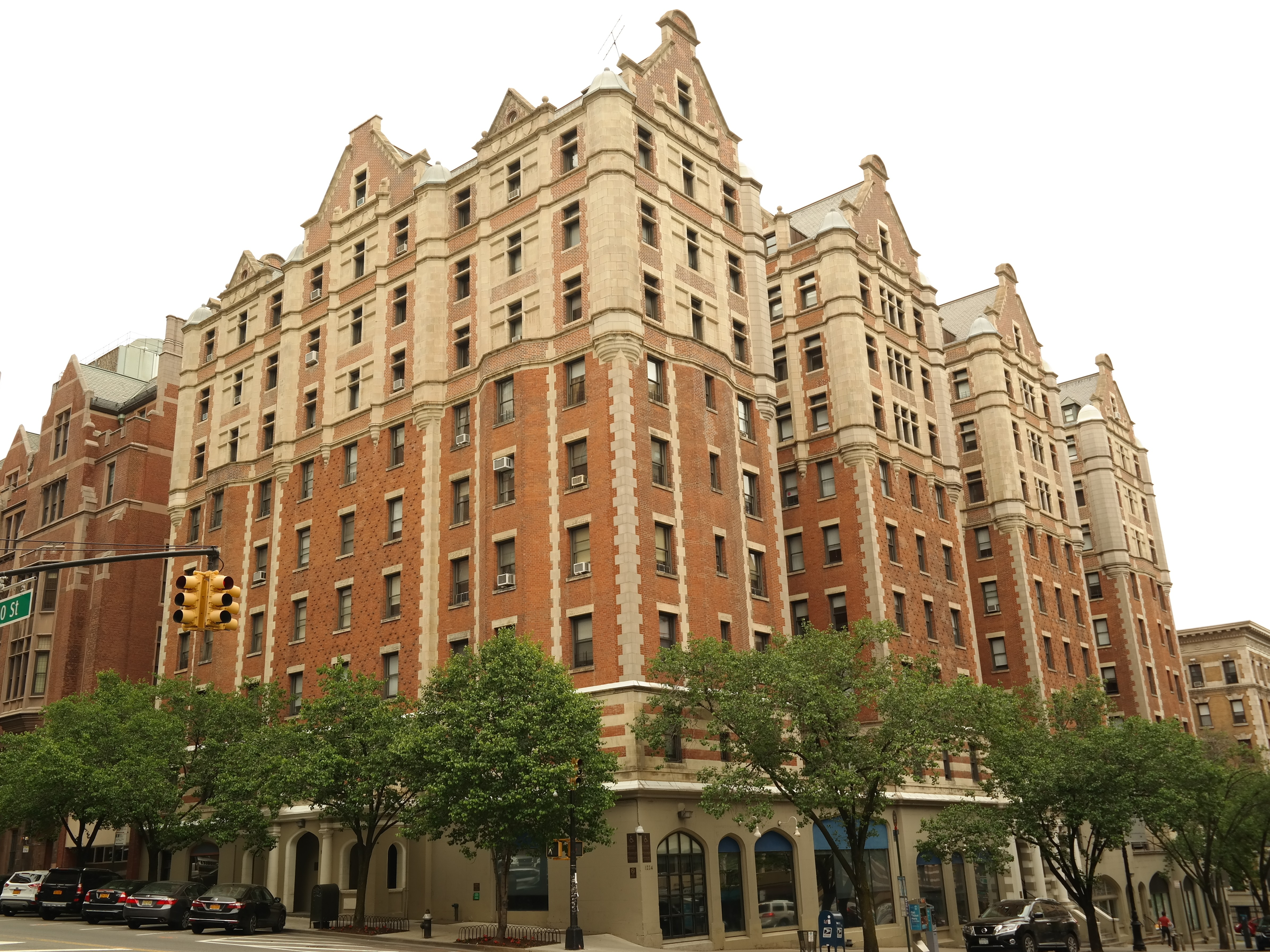 Whittier Hall, Morningside Heights, NYC The building in this photo, Whittier Hall, at 1230 Amsterdam Avenue in New York City, is a residence hall for Teachers College, Columbia University. It was built for Teachers College in 1901 by the Morningside Realty Company and included a mix of apartments and dormitory rooms. Consisting of four wings, they were called Lowell, Longfellow, Whittier, and Emerson Halls, though now the entire complex is known as Whittier. The building's architects were Bruce Price and his associate J.M.A. Darragh in the Collegiate Gothic style. For more information, see: Morningside Heights: A History of its Architecture and Development, by Andrew S. Dolkart, 1998, Columbia University Press.